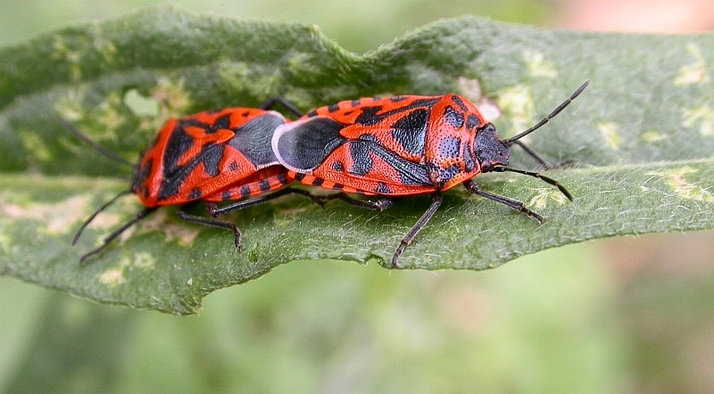 Species Eurydema ventralis Family Pentatomidae Espagne / Spain